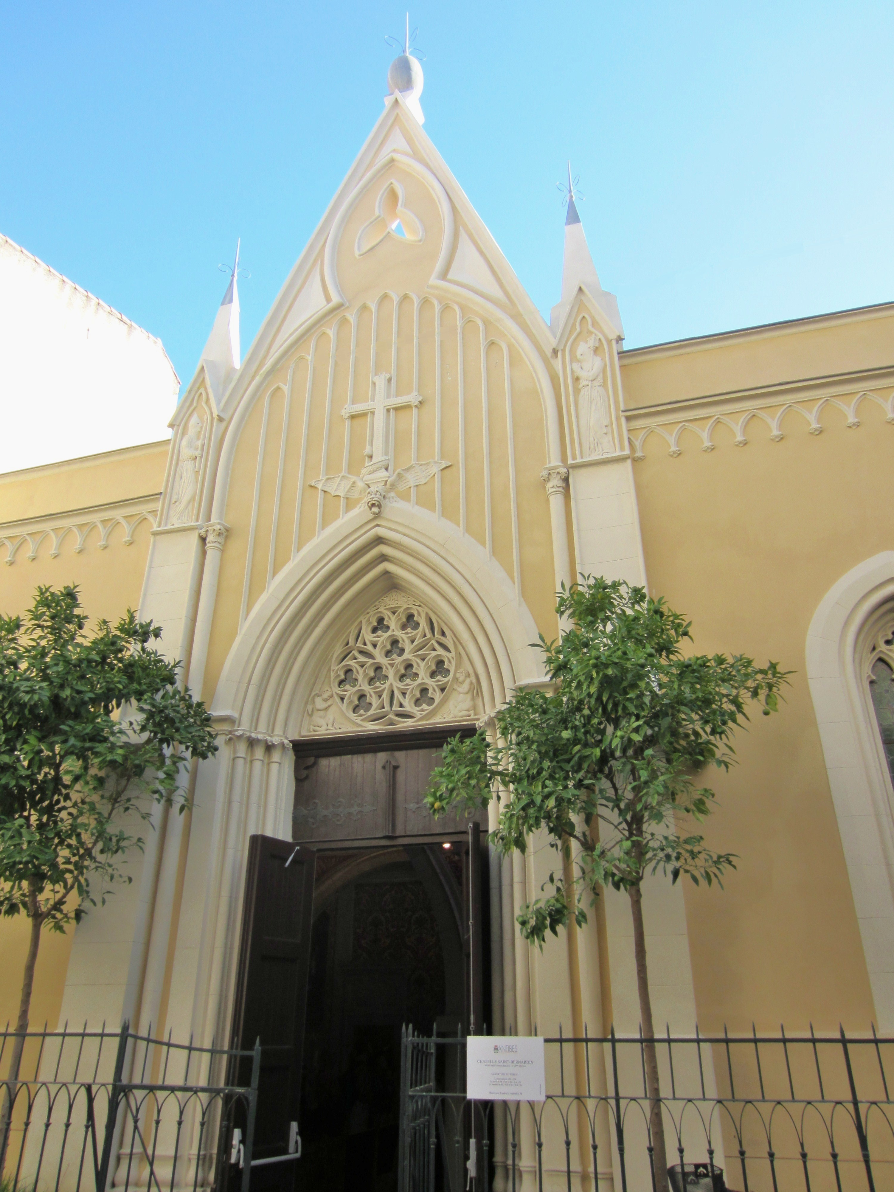 Description st Bernardin Antibes facade Date23 October 2011Sourcemon appareil photoAuthorAimelaimePermission (Reusing this file) st Bernardin Antibes facade